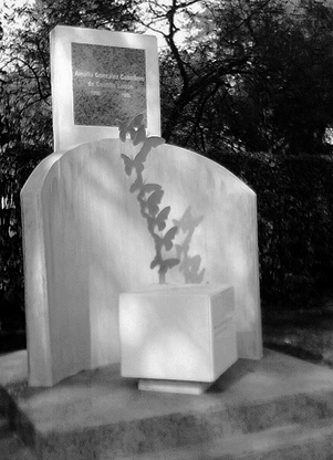 Sepulcro de Amalia González Caballero en la Rotonda de las Personas Ilustres de la Ciudad de México.